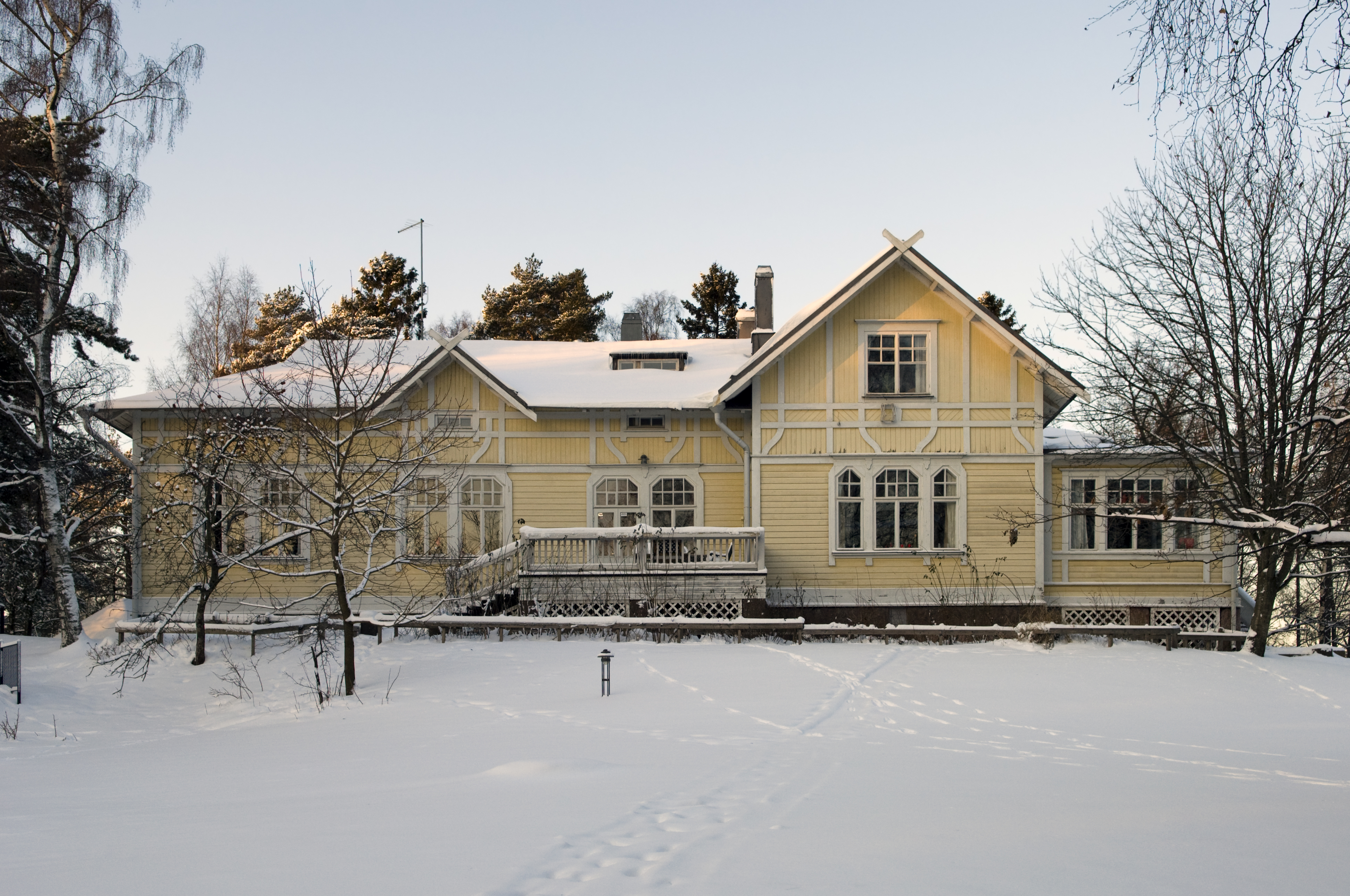 Kaartintorppa villa in Munkkiniemi, Helsinki, Finland. General Major Anders Edvard Ramsay had the villa built as his son's family residence during years 1902–1903. Kindergarten Kaartintorppa has hold residence in the building since year 1946.